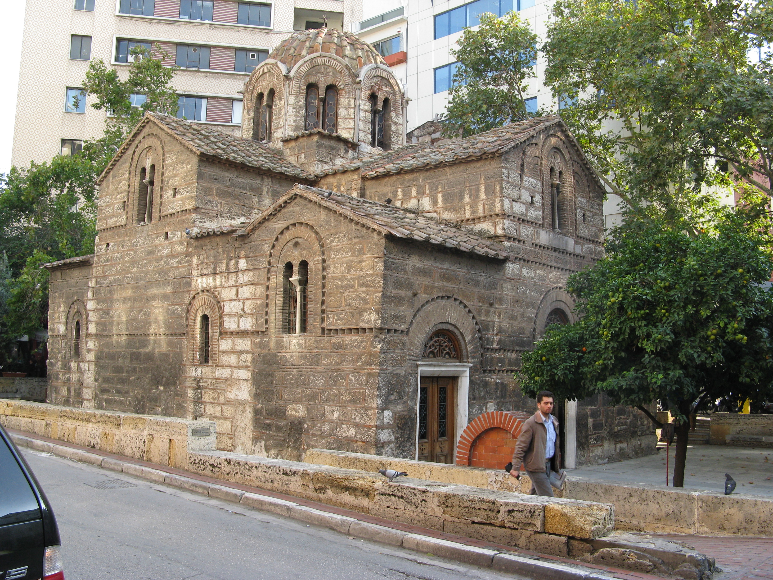 Agii Theodori church in Athens.